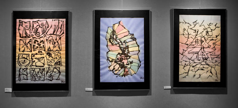 An example of the result of the Ronography Process.